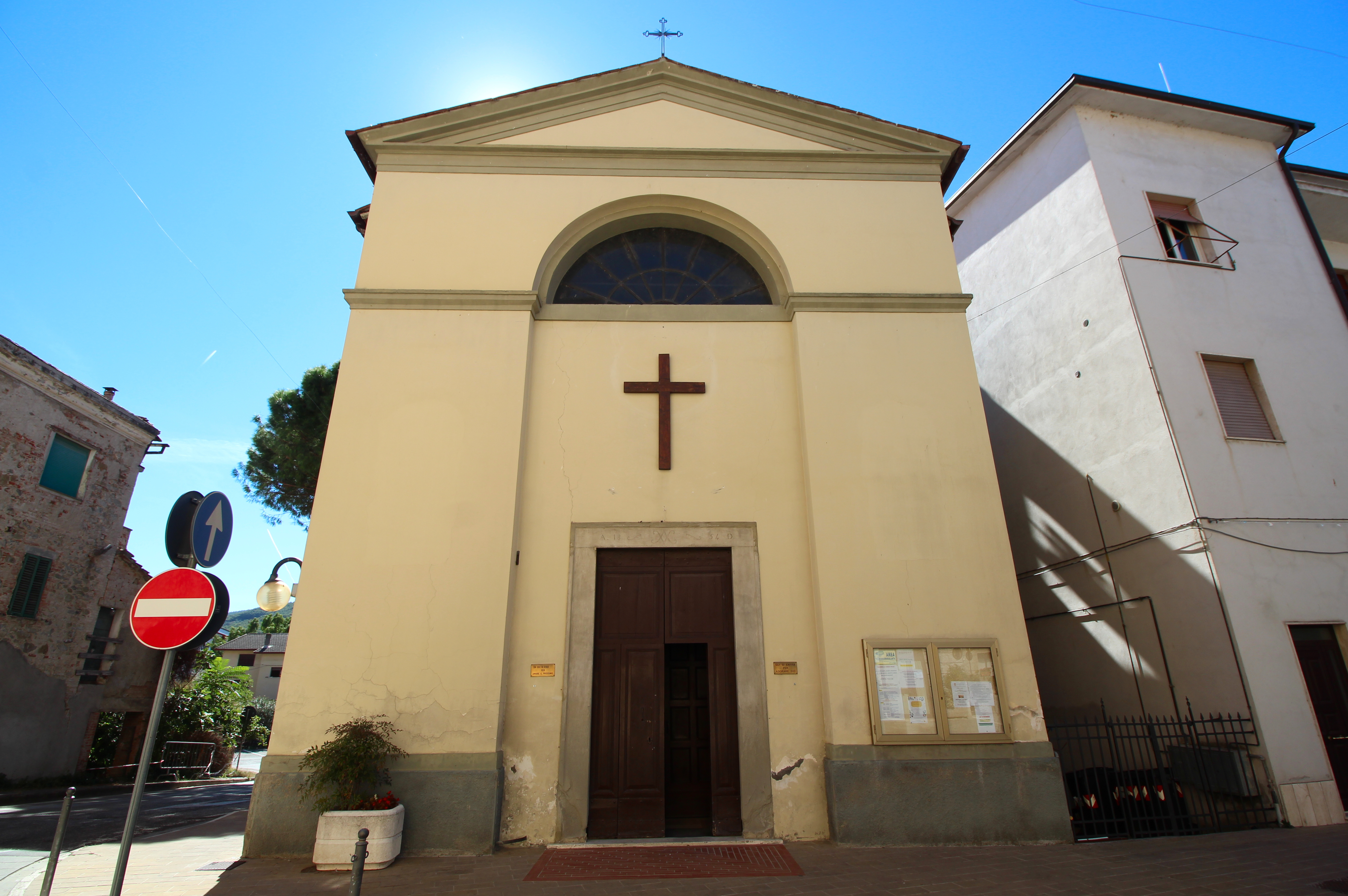 Church San Luigi Gonzaga, Tavernelle, hamlet of Panicale, Province of Perugia, Umbria, Italy